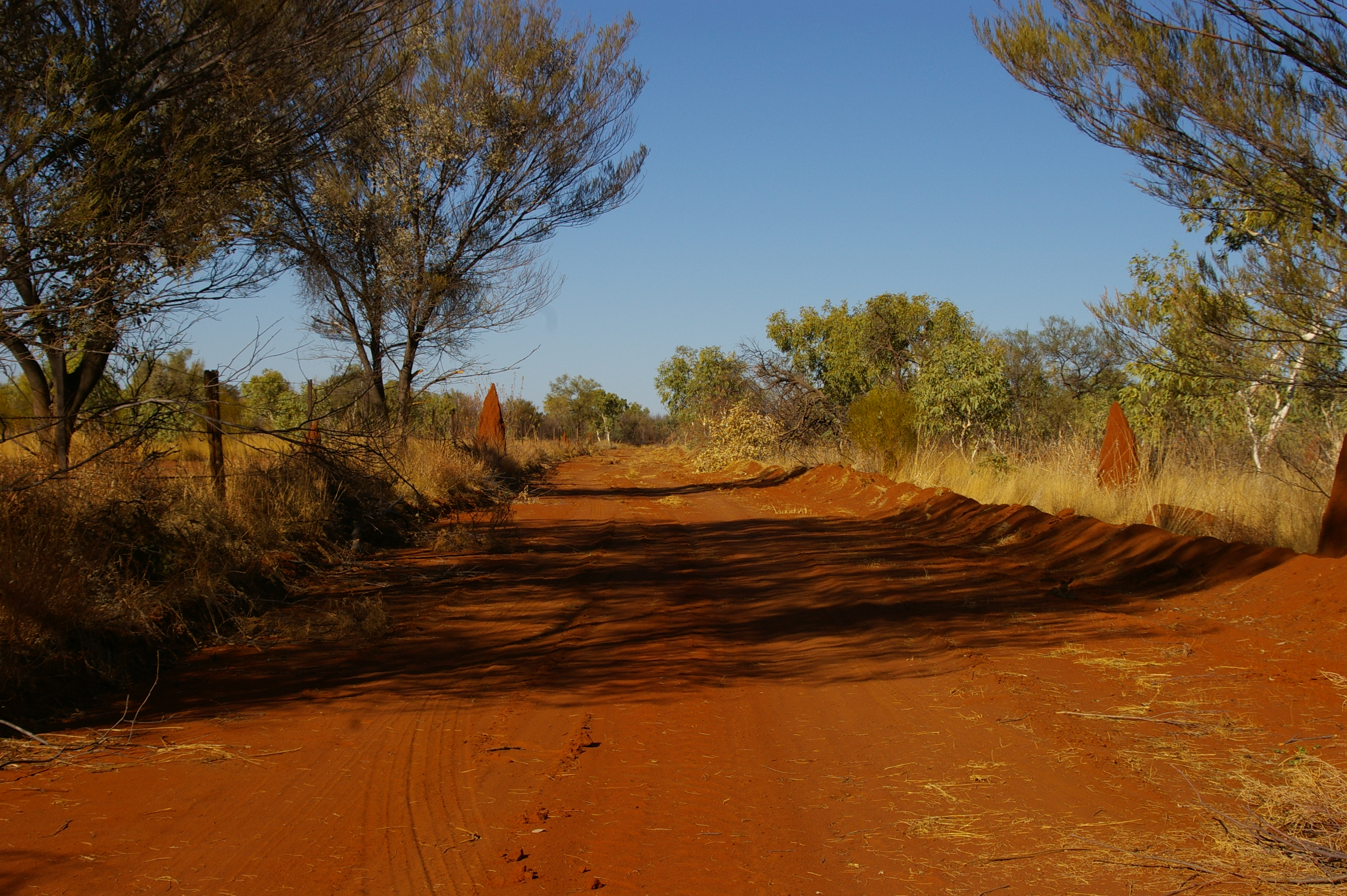 Road near Ali Curung on drive to gather firewood and look for a mulga tree trunk to turn into a nulla nulla.